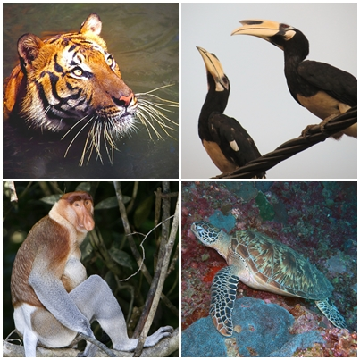 A composite image of Malaysian wildlife from these images. Upload by Muffin Wizard (By B_cool on Flickr) Upload by Taha Tahir Upload by Pauk (By David Dennis on Flickr) Upload by Jnpet